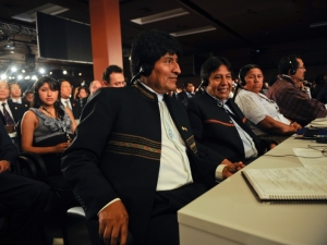 Bolivian President Evo Morales.